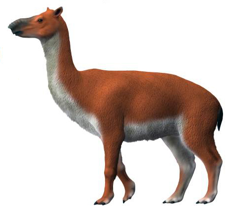 Life restoration of Theosodon garretorum